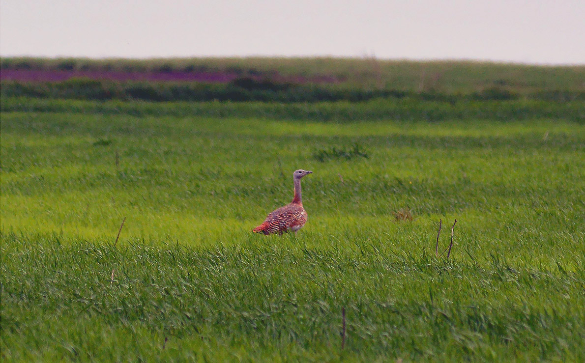 A female Great Bustard (Otis tarda) photographed near Mokrin, in Serbia. This individual is the remainder of the last naturally existing flock of this large steppe bird in Vojvodina. It is endangered because of the vanishing undisturbed grassland habitat. These birds are often seen by kurgans, and their males even traditionally like to display themselves during their courtship dance on top of an old tell mound. Ово је фотографија заштићеног природног добра у Србији под шифром: РП21 This is a a photo of a natural area in Serbia with ID: РП21